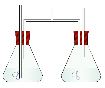 Diagram of apparatus to show co2 production in respiration. This image was drawn by Theresa Knott, using the drawing tools that come with microsoft word. The diagram was then copied and pasted into Paint Shop Pro where it was saved in a .png format. For info on how to draw diagrams like this see Wikipedia:How to draw a diagram with Microsoft Word